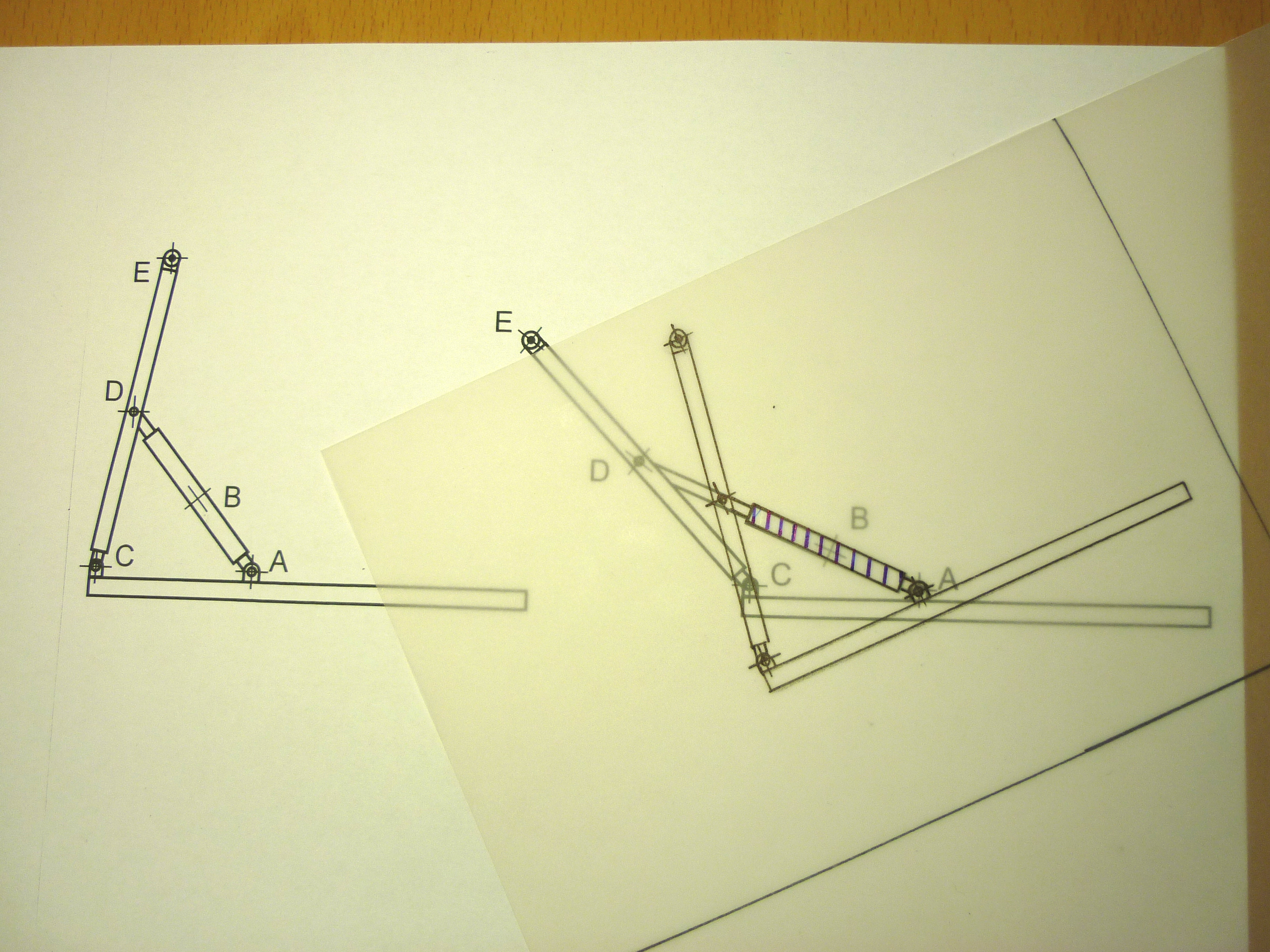 Activity with a tracing paper to understand the relativiy of movement (see File:Elevateur bande activite calque.svg).